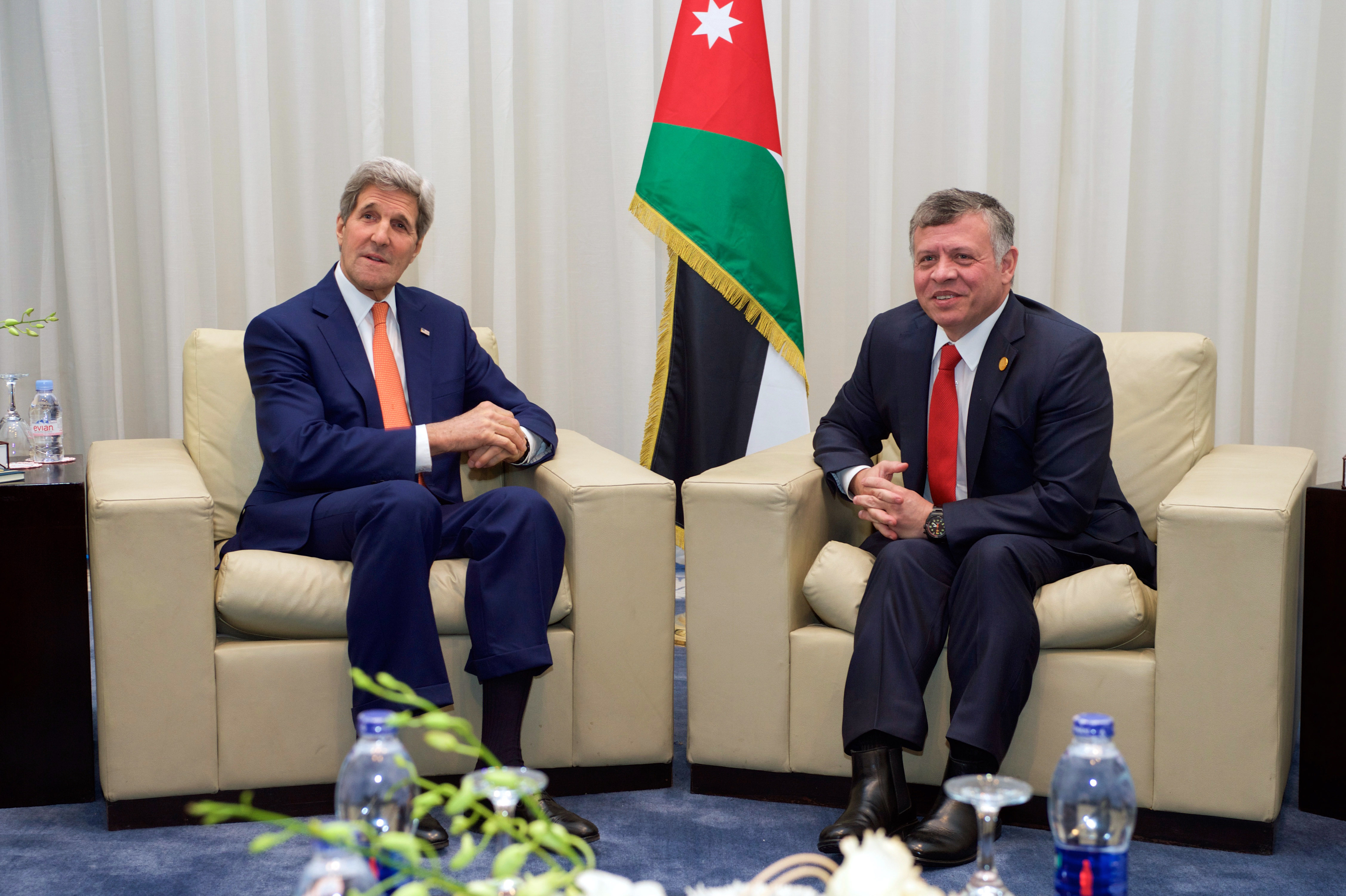 U.S. Secretary of State John Kerry sits with King Abdullah II of Jordan at the Congress Center in Sharm el-Sheikh, Egypt, on March 13, 2015, before a bilateral meeting amid an Egyptian development conference. [State Department photo/ Public Domain]